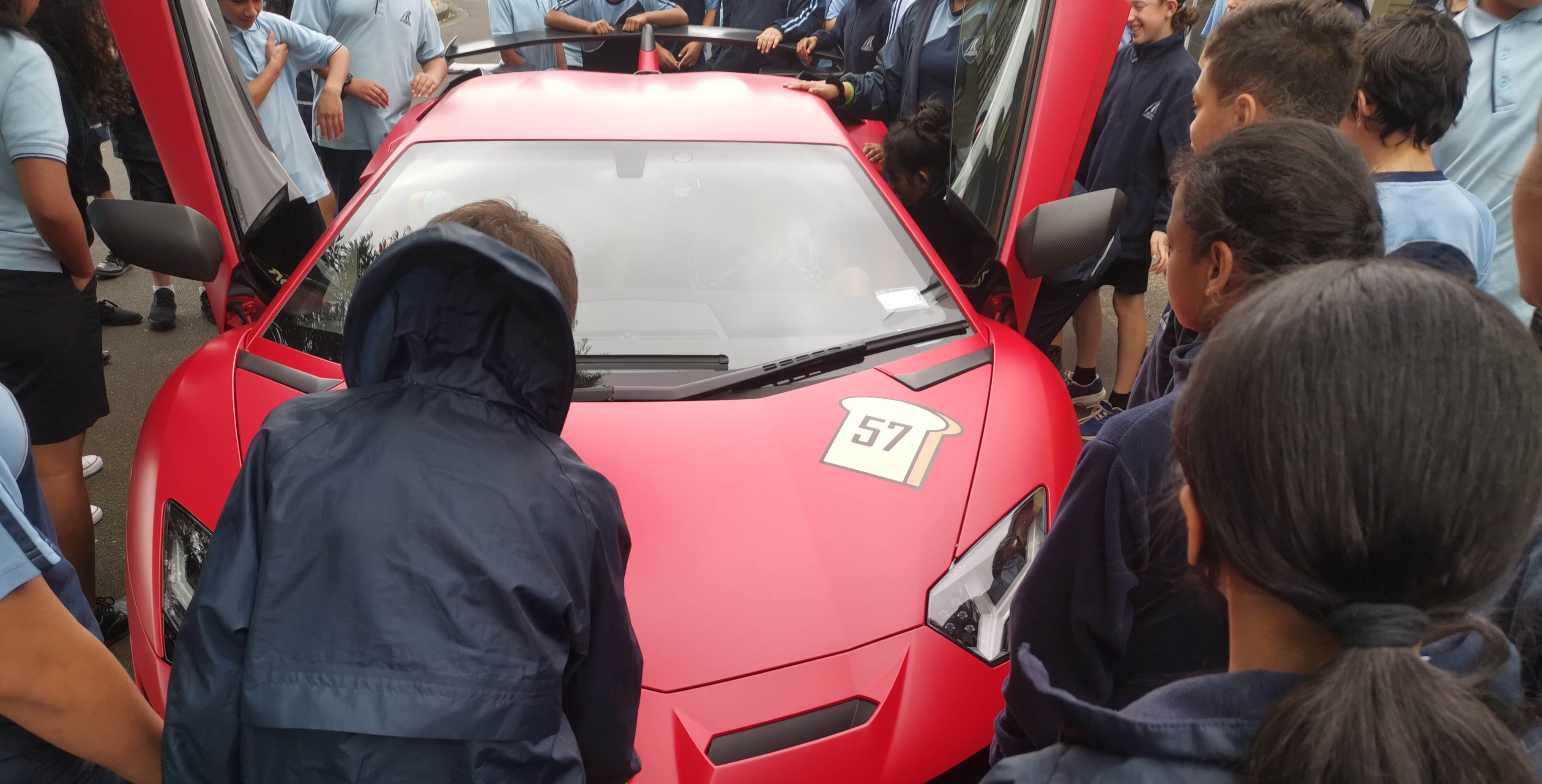 The Bread Charity took a $1,000,000 Lamborghini Aventador SVJ to show students they mentor